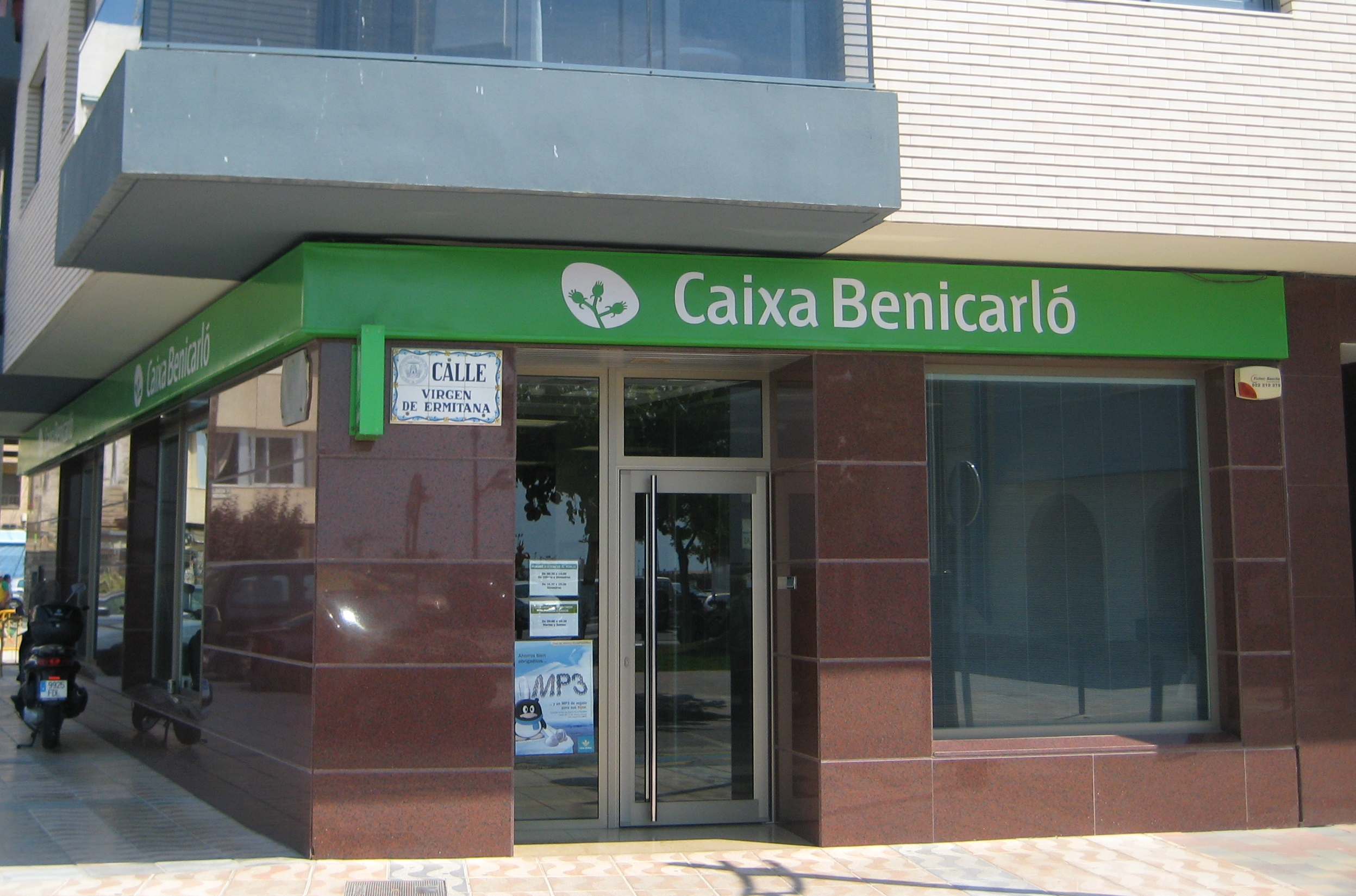 Branch of Caixa Benicarló in Peniscola, Castelló, Spain.